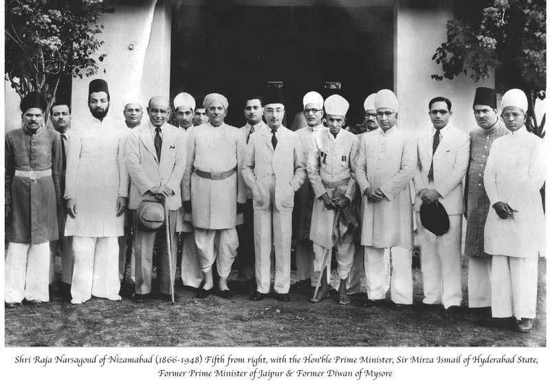 Raja Narsa Goud with Honourable Prime Minister Sir Mirza Ismail of Hyderabad State, 1948.